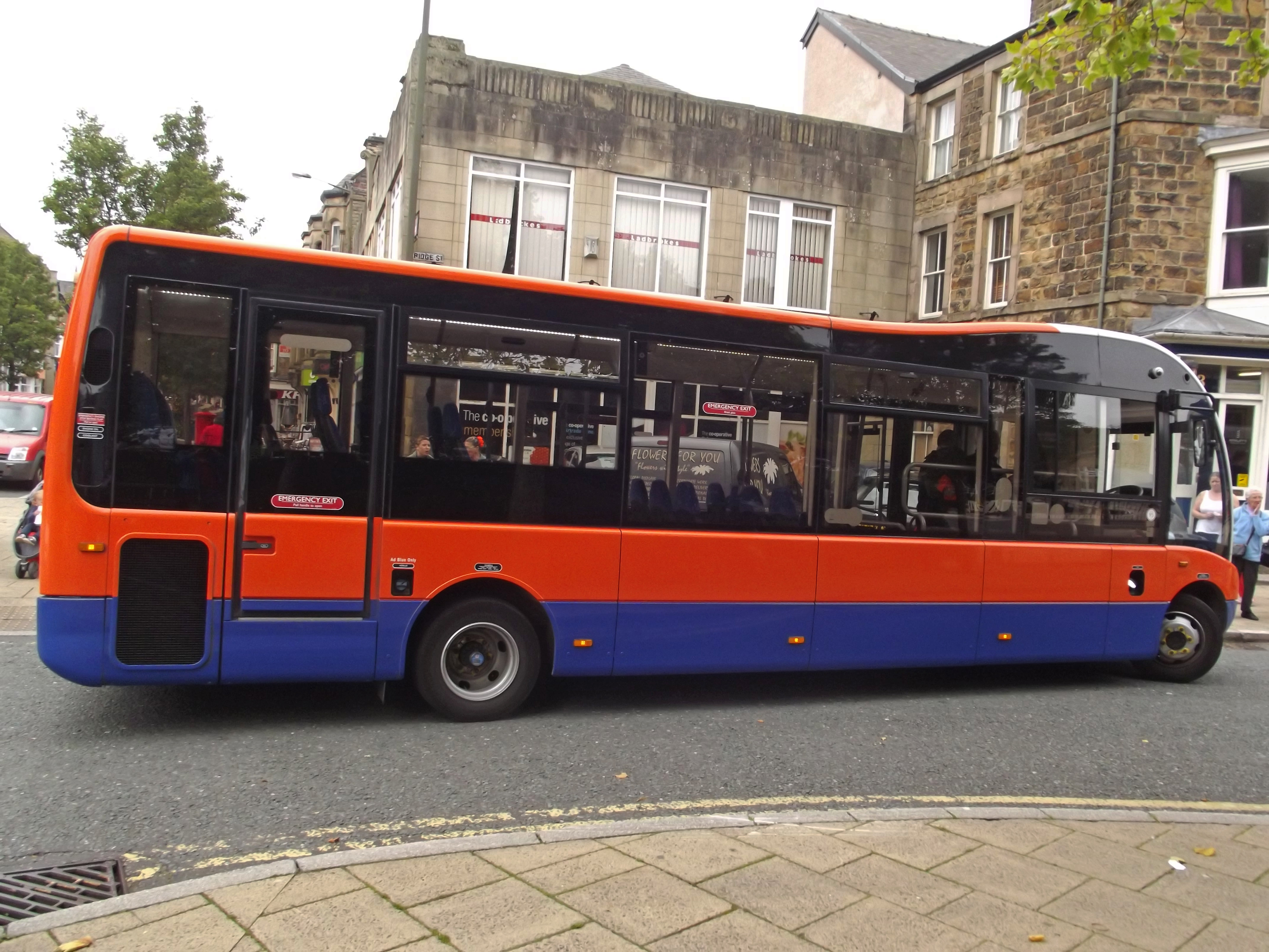 A bus seen near Spring Gardens in Buxton (the shopping area of the town). High Peak Buses. Distinctive orange and blue colours.